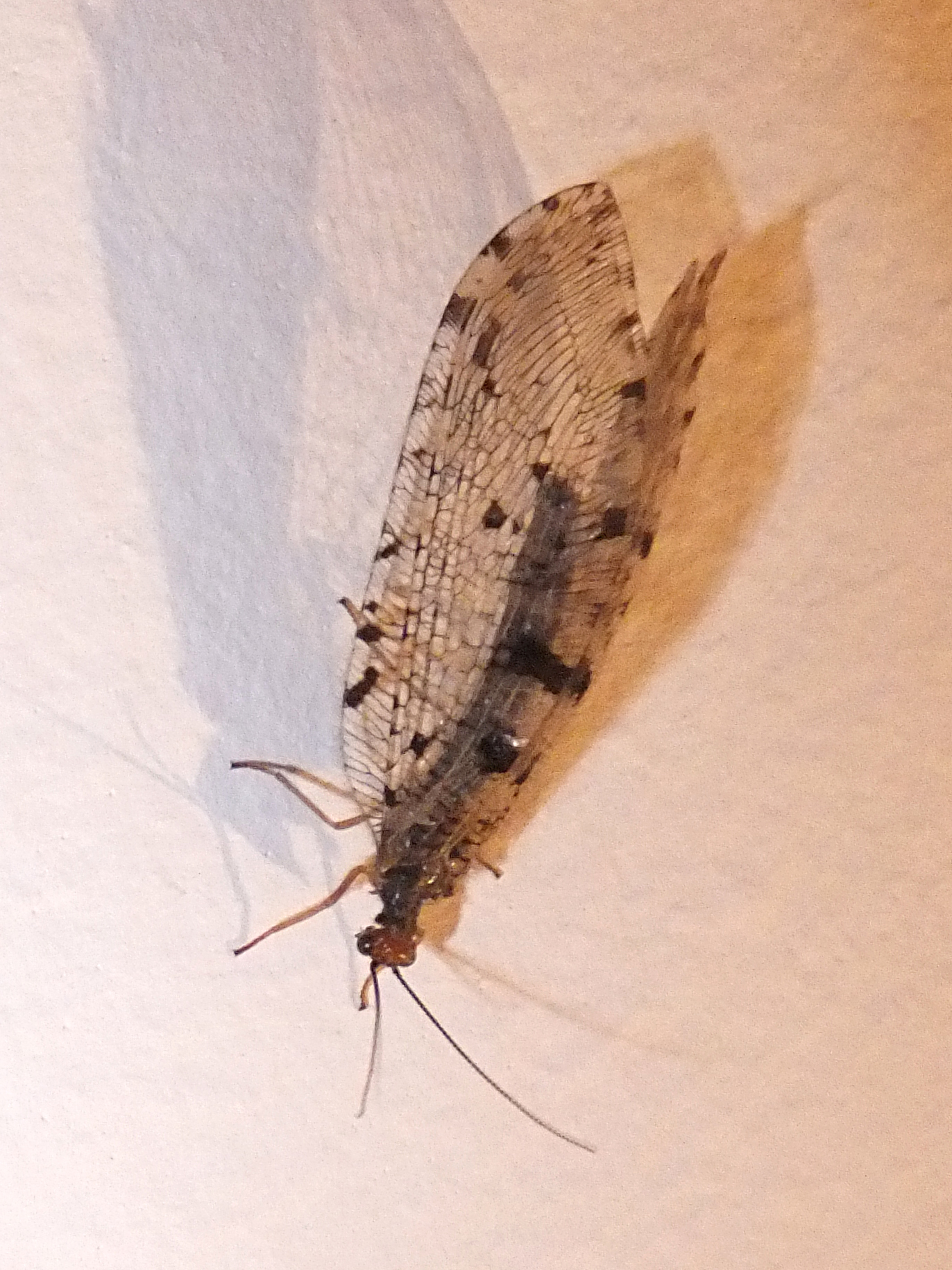 Osmylus fulvicephalus photographed in Piazzo (Segonzano, Italy)